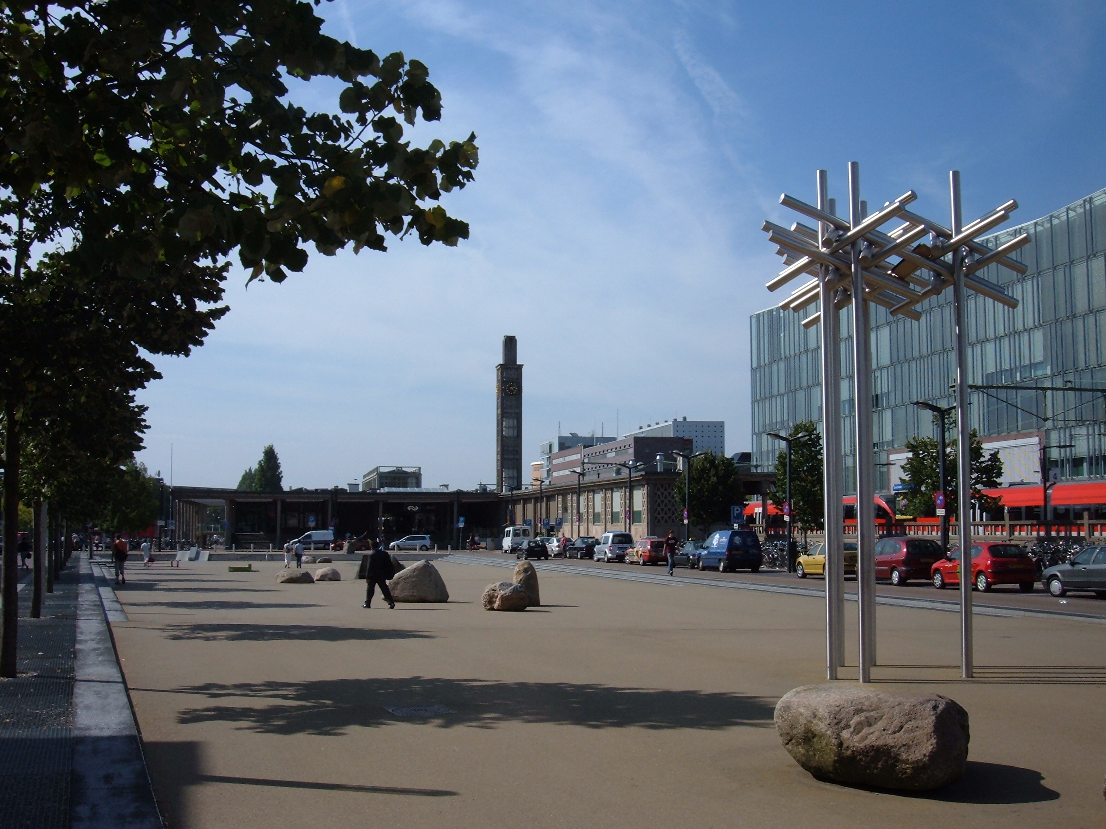 Stationsplein Enschede with sculpture Bomen II (2004) by Rinus Roelofs in Eschede/The Netherlands